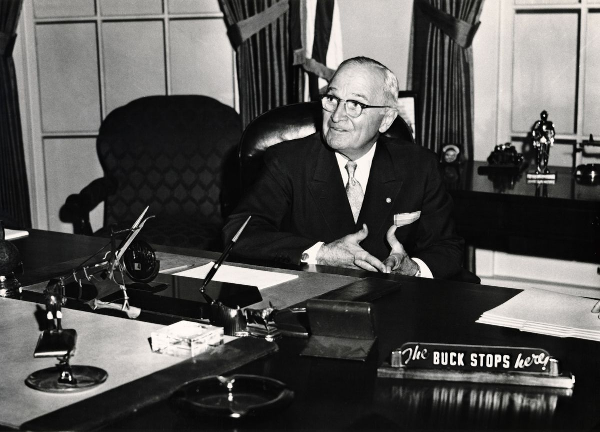 Harry Truman poses for a photograph at the recreation of the Truman Oval Office at the Truman Library in 1959.